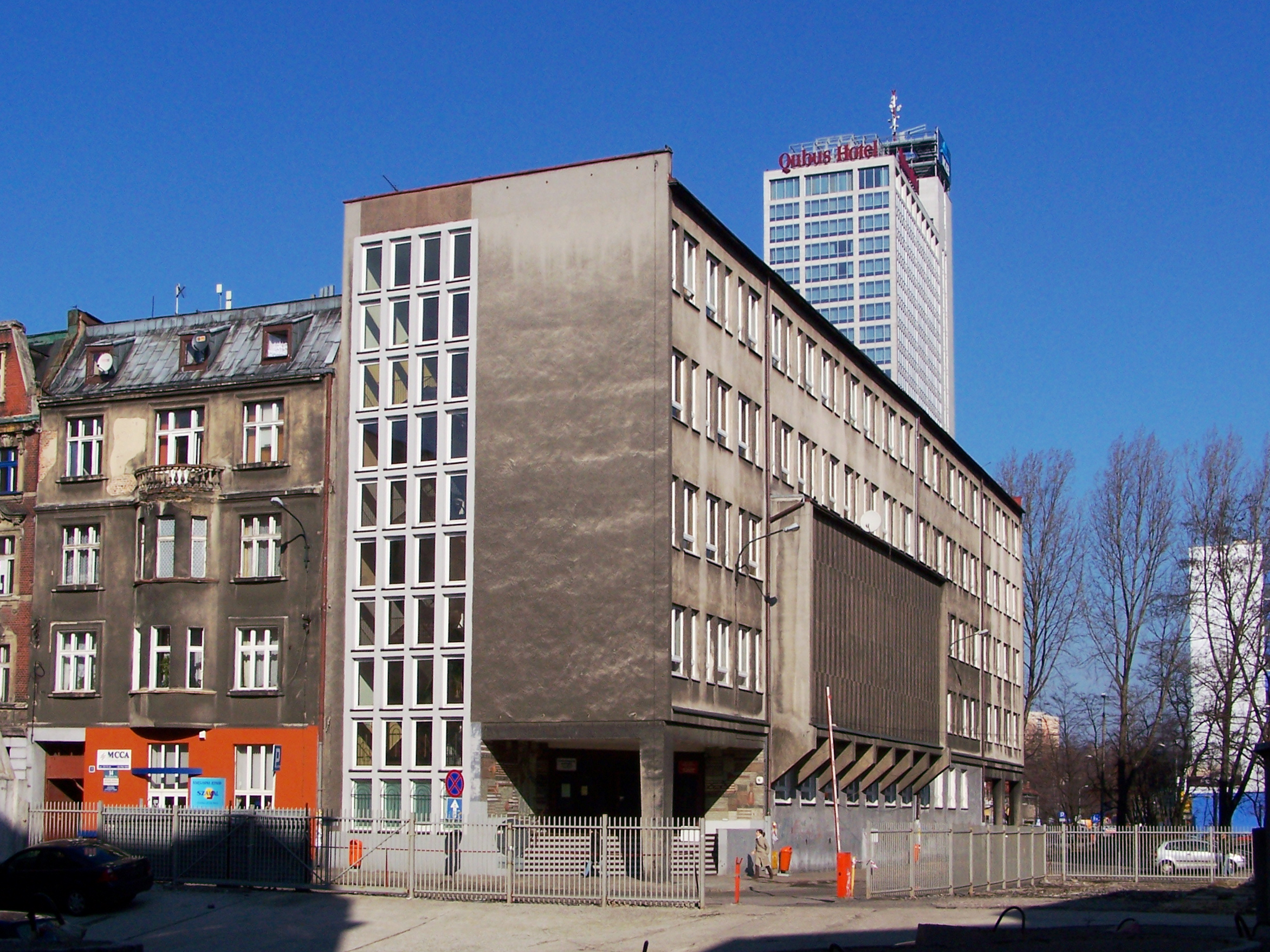 Music school in Katowice (Poland).